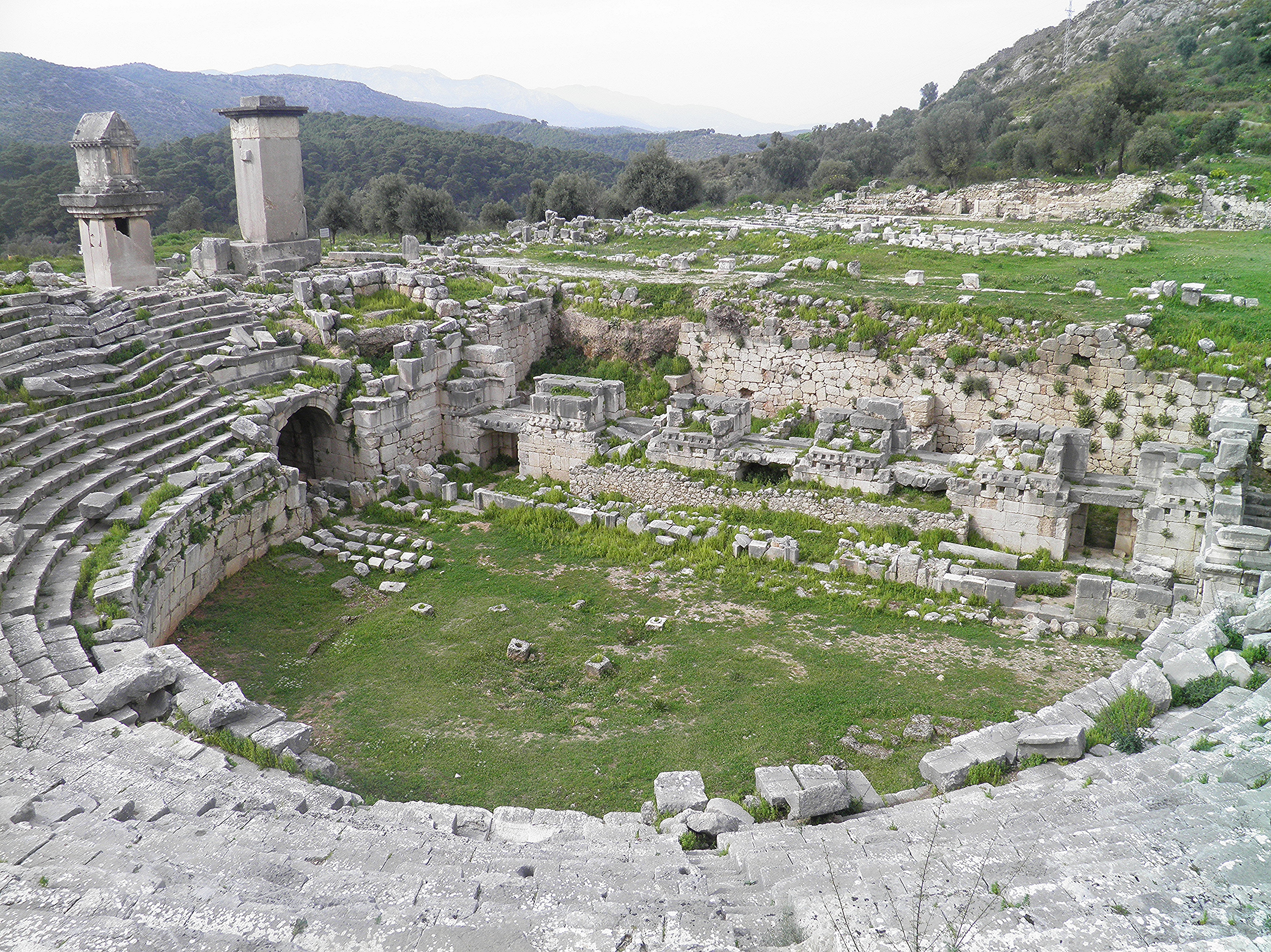 The Roman theatre, built in the mid-2nd century AD, Xanthos, Lycia, Turkey